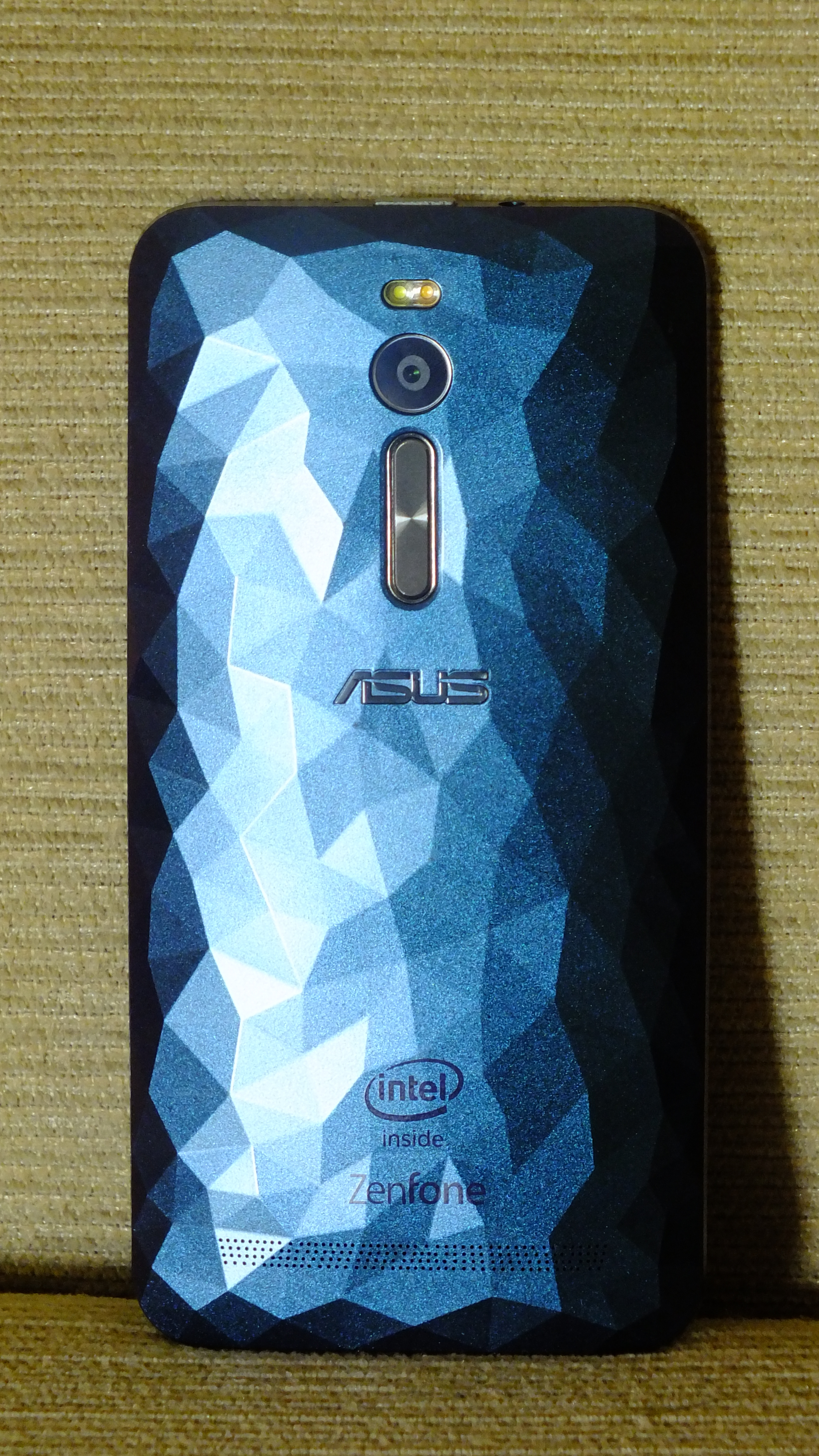 Shown back cover of Asus Zenfone 2 Deluxe